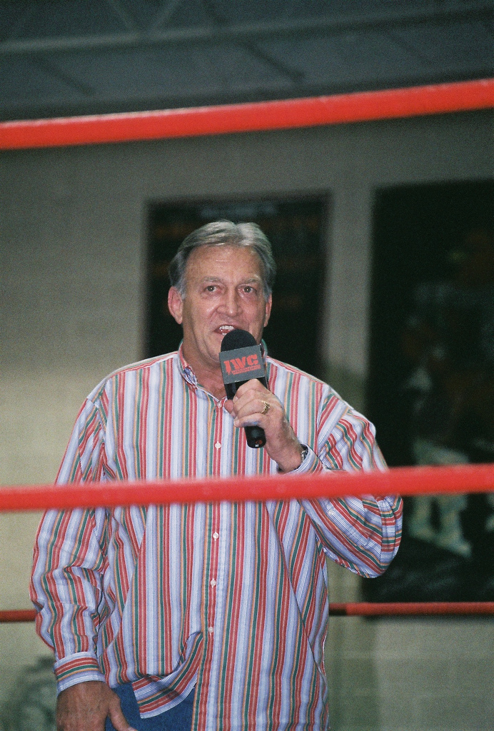 Addressing the crowd in Franklin, PA 4-10-10